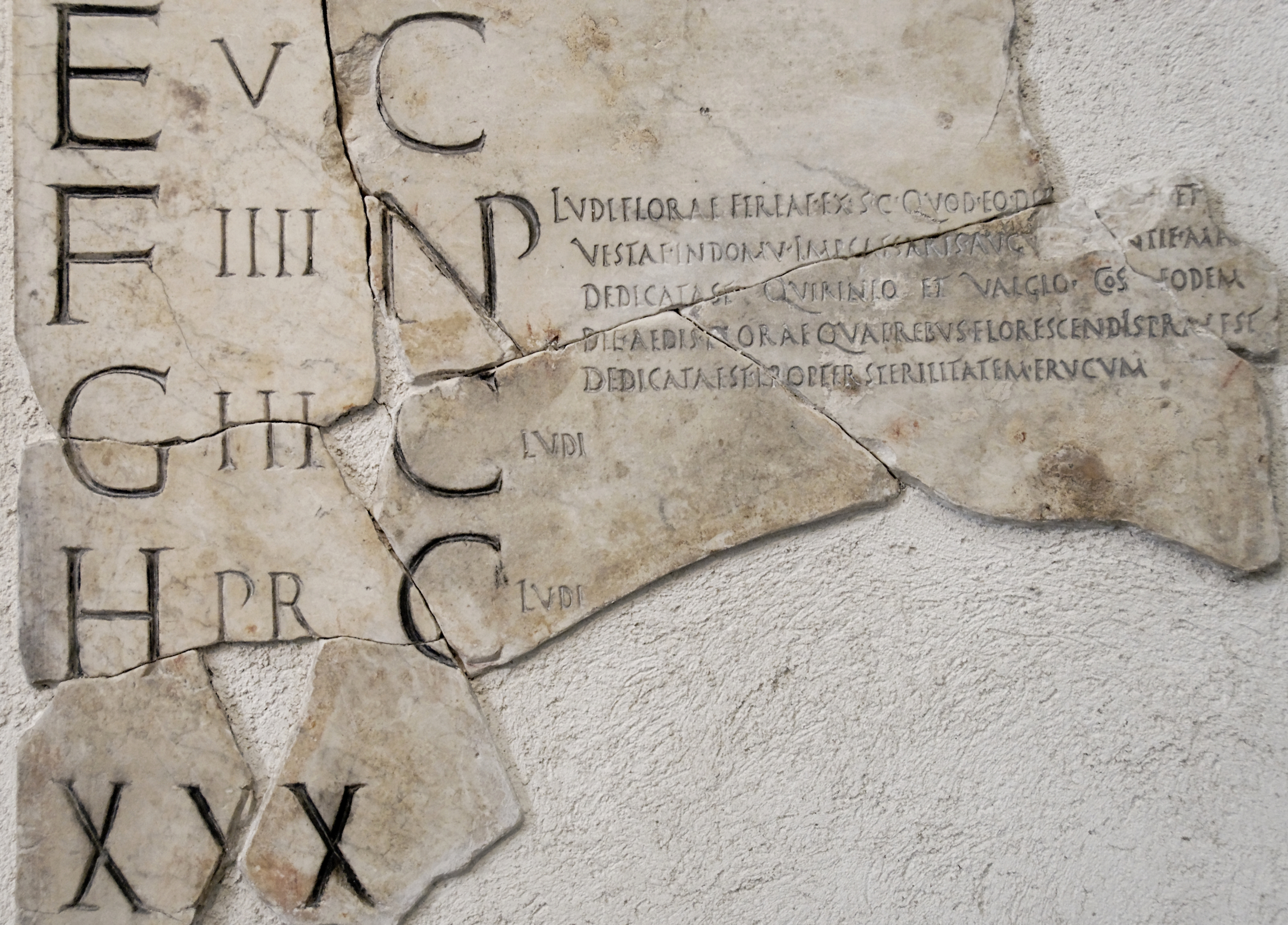 Section of the Fasti Praenestini, calendar of Verrius Flaccus, 6–9 BC. From Palestrina.